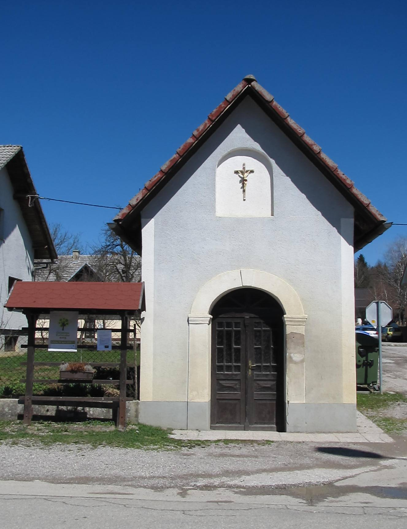 Gorenje, Municipality of Kočevje, Slovenia. Chapel in center of village.